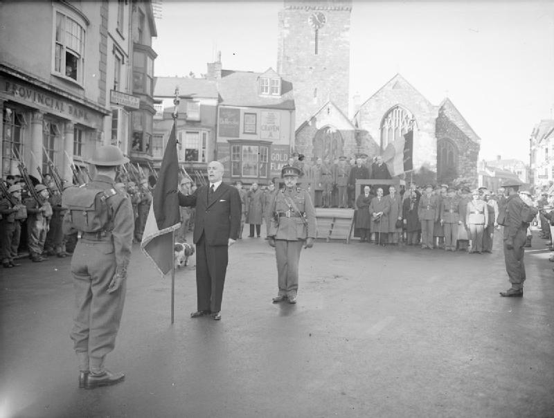 The Belgian Government in Exile during the Second World War New colours being presented to Belgian troops at Tenby by the Belgian Prime Minister Monsieur Hubert Pierlot.